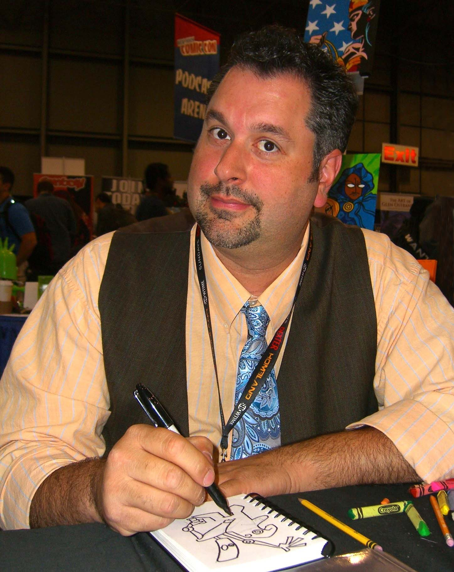 Comics creator Franco Aureliani at the New York Comic Con, October 15, 2011. This photo was created by Luigi Novi. It is not in the public domain, and use of this file outside of the licensing terms is a copyright violation.